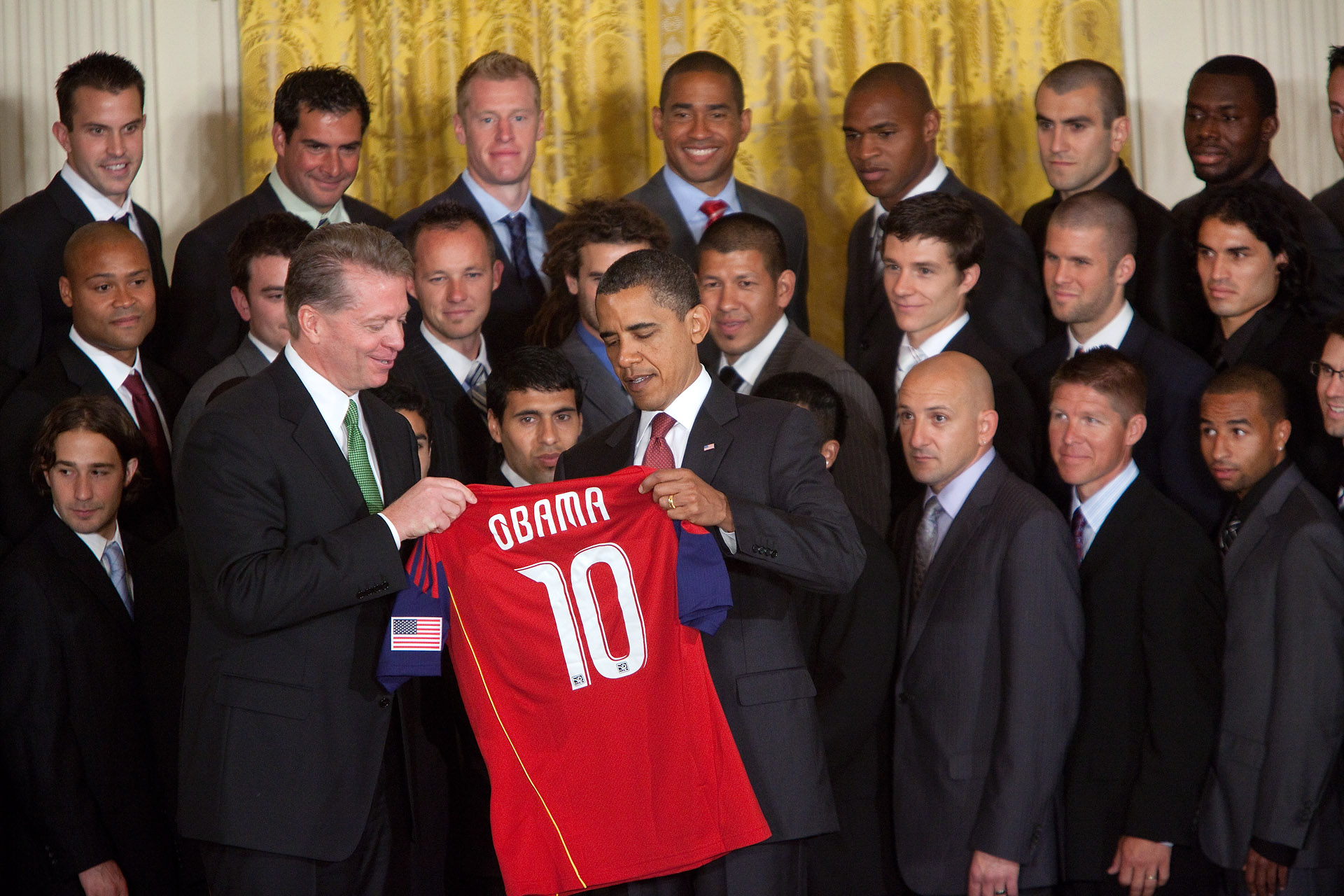 President Barack Obama is presented with a team jersey by Real Salt Lake team chairman Dave Checketts during a ceremony honoring the Major League Soccer champions in the East Room of the White House.